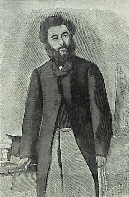 Mikayel Nalbandian